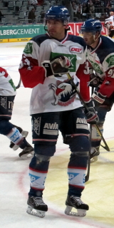 Doug Janik, american ice hockey player, defenseman